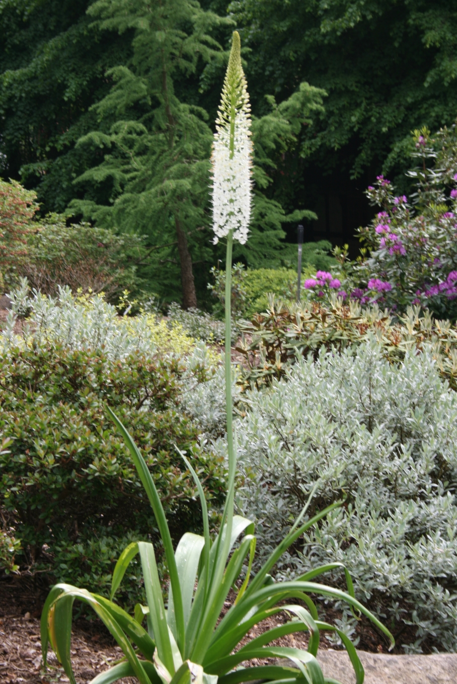 Eremurus himalaicus: habit with flowers